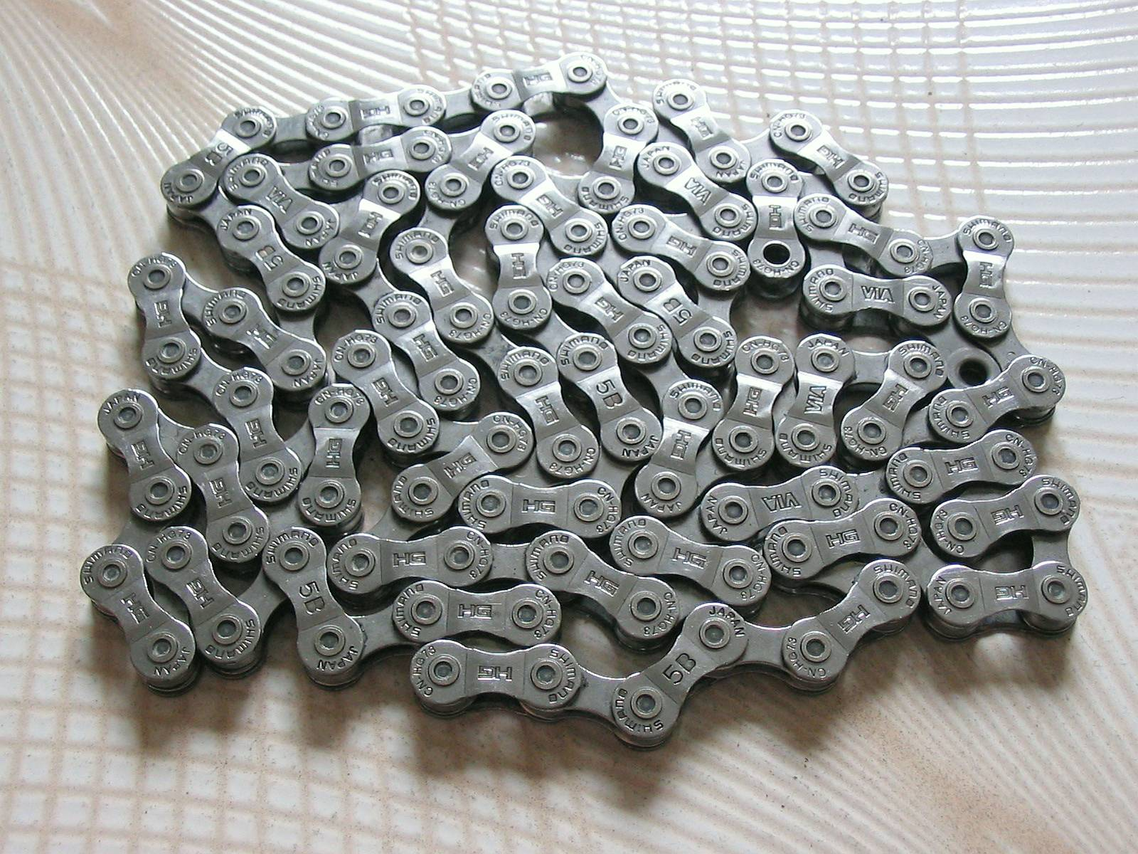 Shimano HG73 bicycle chain